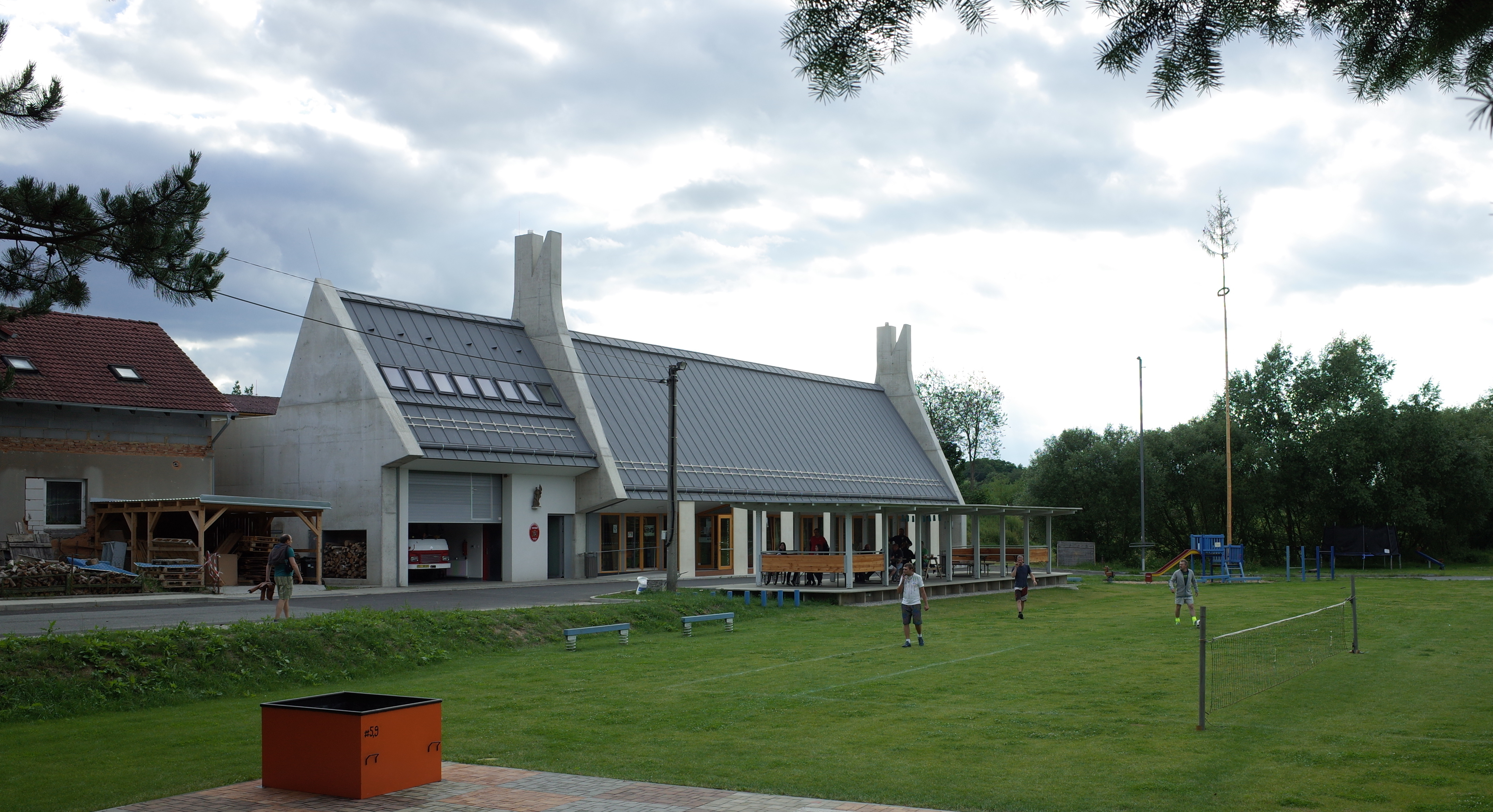 Centrum Caolinum Nevřeň